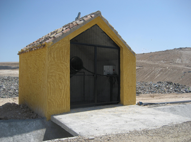 Leachate pumphouse